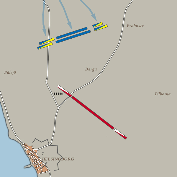 Scheme over opening stages of the battle.